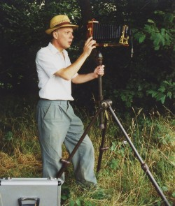 Peter Watson's portrait